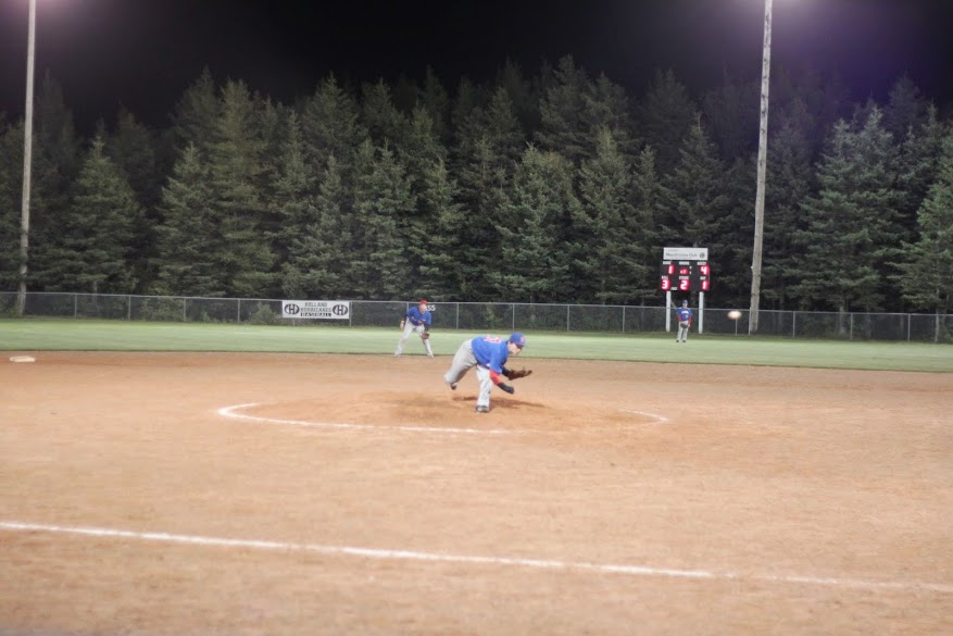 MacBeath pitching